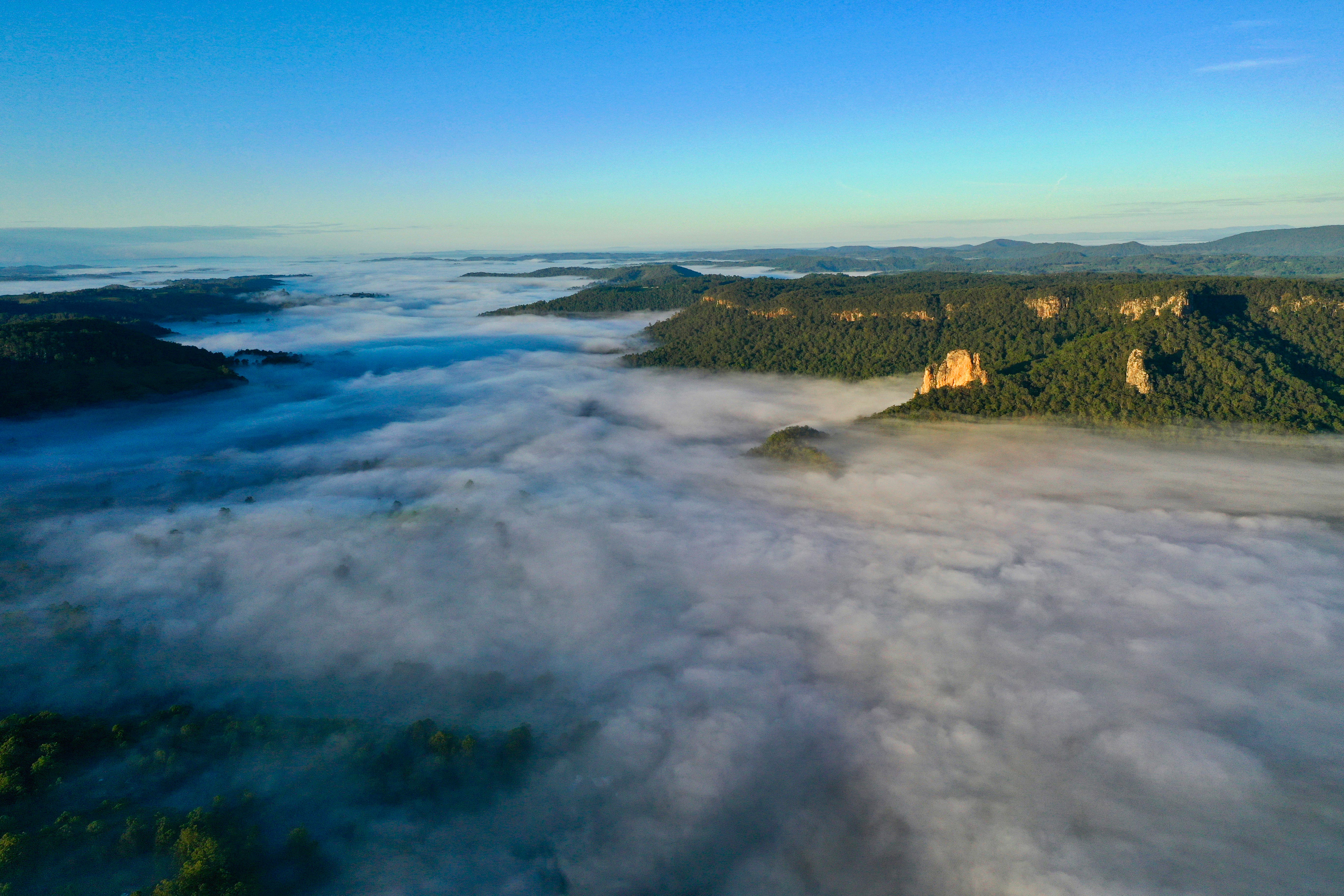 Nimbin Rocks and Nimbin Valley mist in the Northern Rivers of NSW Australia